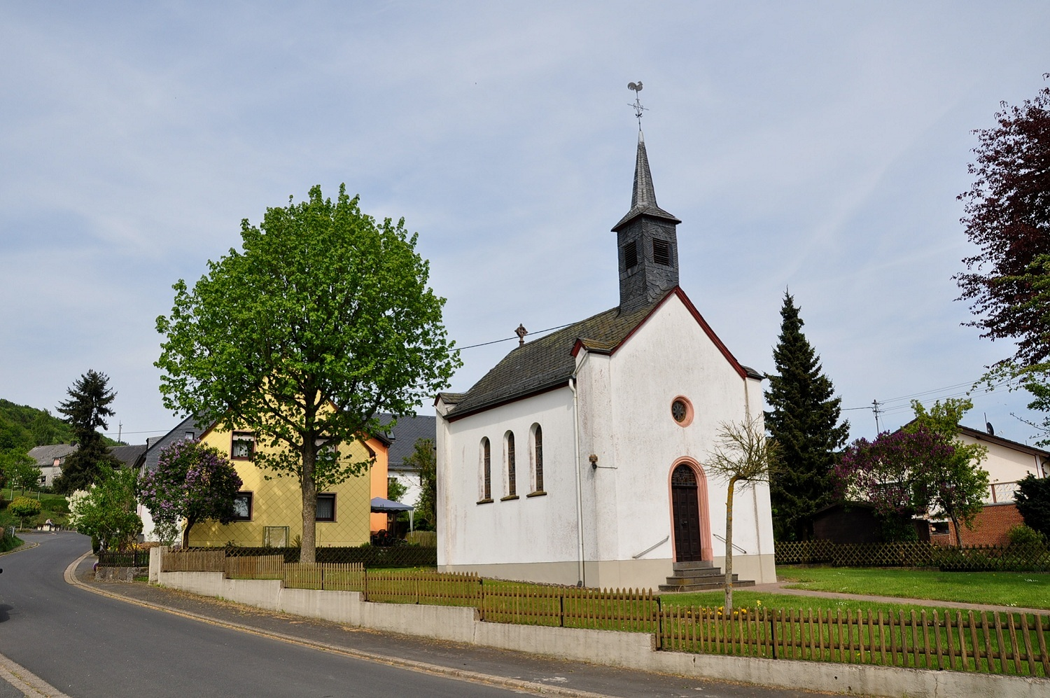 Catholic church, Mosbruch (Kelberg Municipality, Vulkaneifel, Rhineland-Palatinate, Germany).